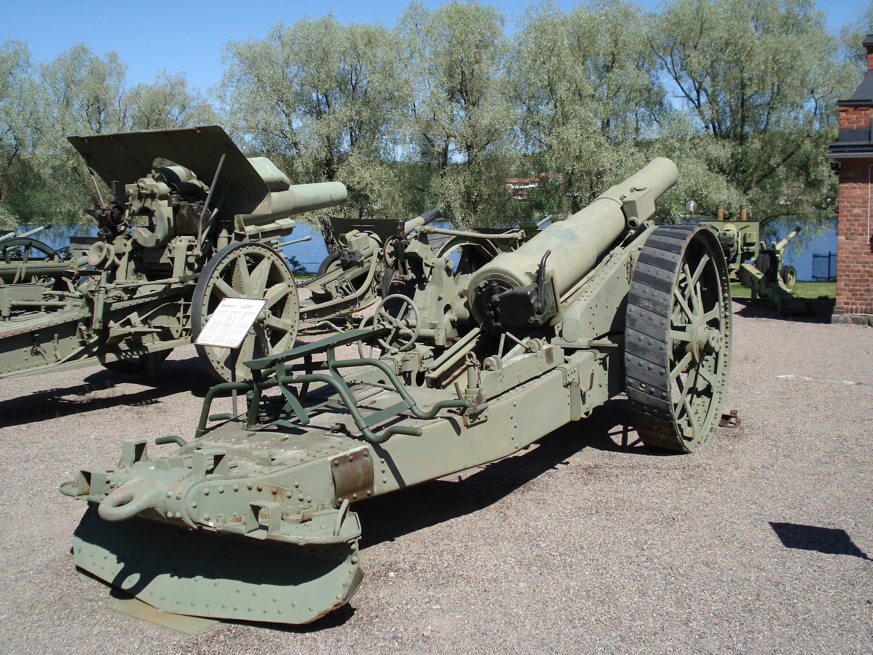 British-designed BL 8 inch Mk 6 howitzer, manufactured in USA as Model 1917 and supplied to the Finnish army. Displayed in Hämeenlinna Artillery Museum. The stampings on the breech state: 8 IN. HOWITZER MODEL OF 1917 (VICKERS) MIDVALE NO 188 1918 VICKERS MARK VI. Photo taken on June 18, 2006. Source: Photo by me, User:Balcer.